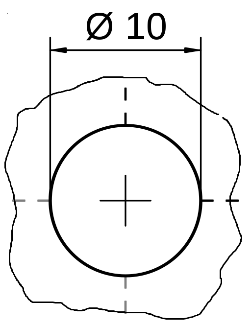 Area of a technical drawing showing a hole according to German standard DIN. Own work, 20th July 2006, Borowski